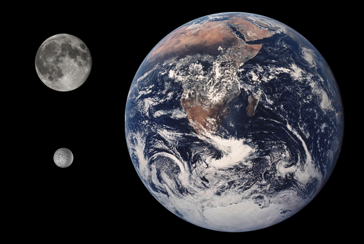 Diameter comparison of the Uranian moon Umbriel, Moon, and Earth. Scale: Approximately 28.9 km per pixel.